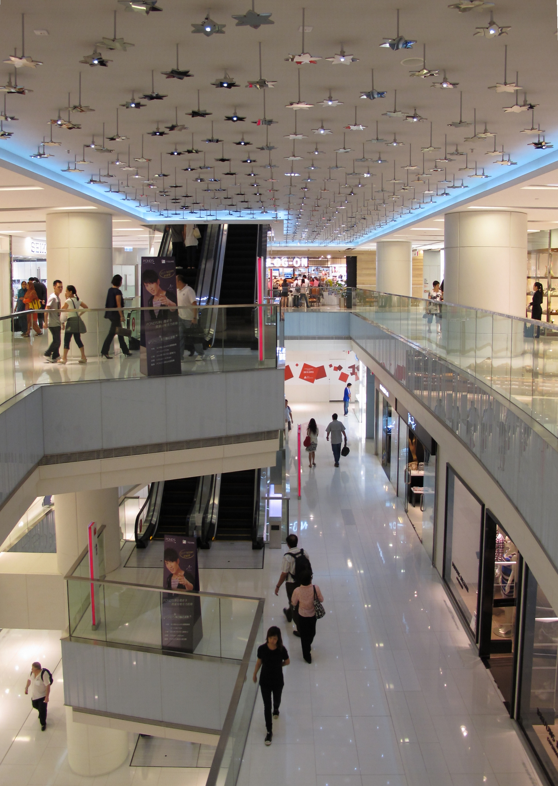 iSQUARE 國際廣場